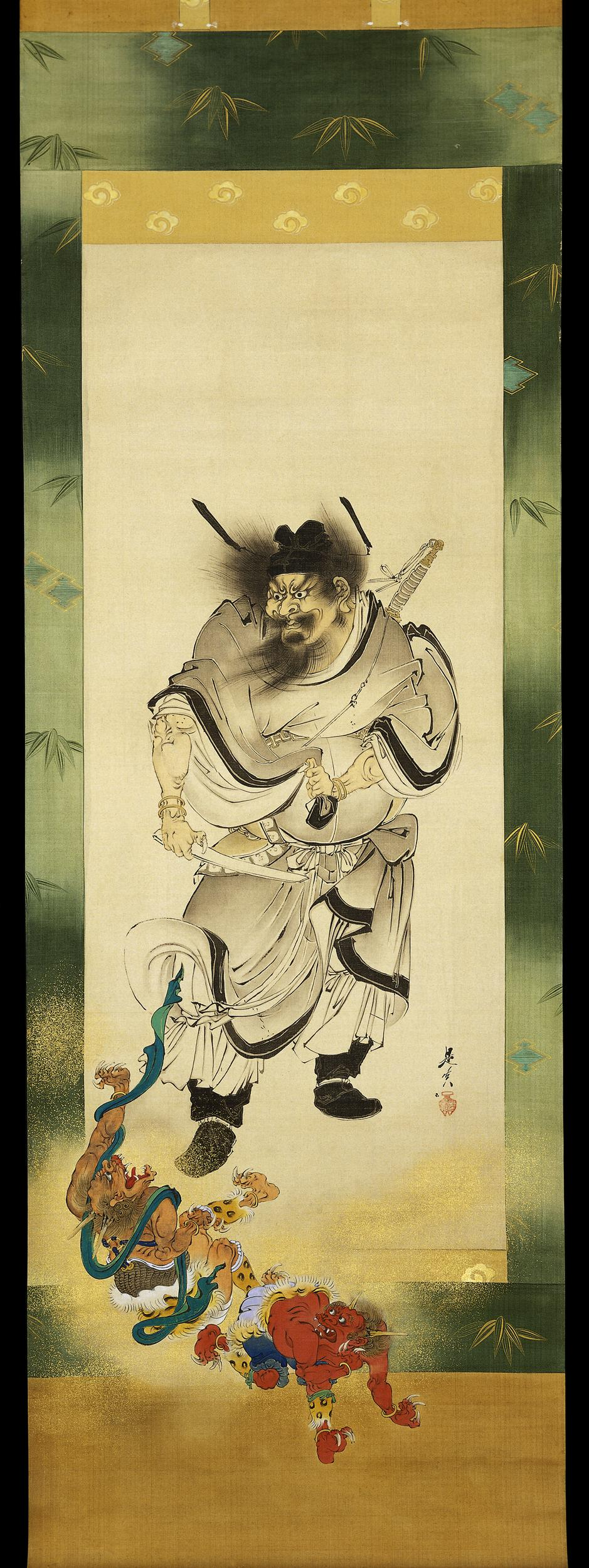 Hanging scroll painting, owned by British Museum (Jap.Ptg.2612).